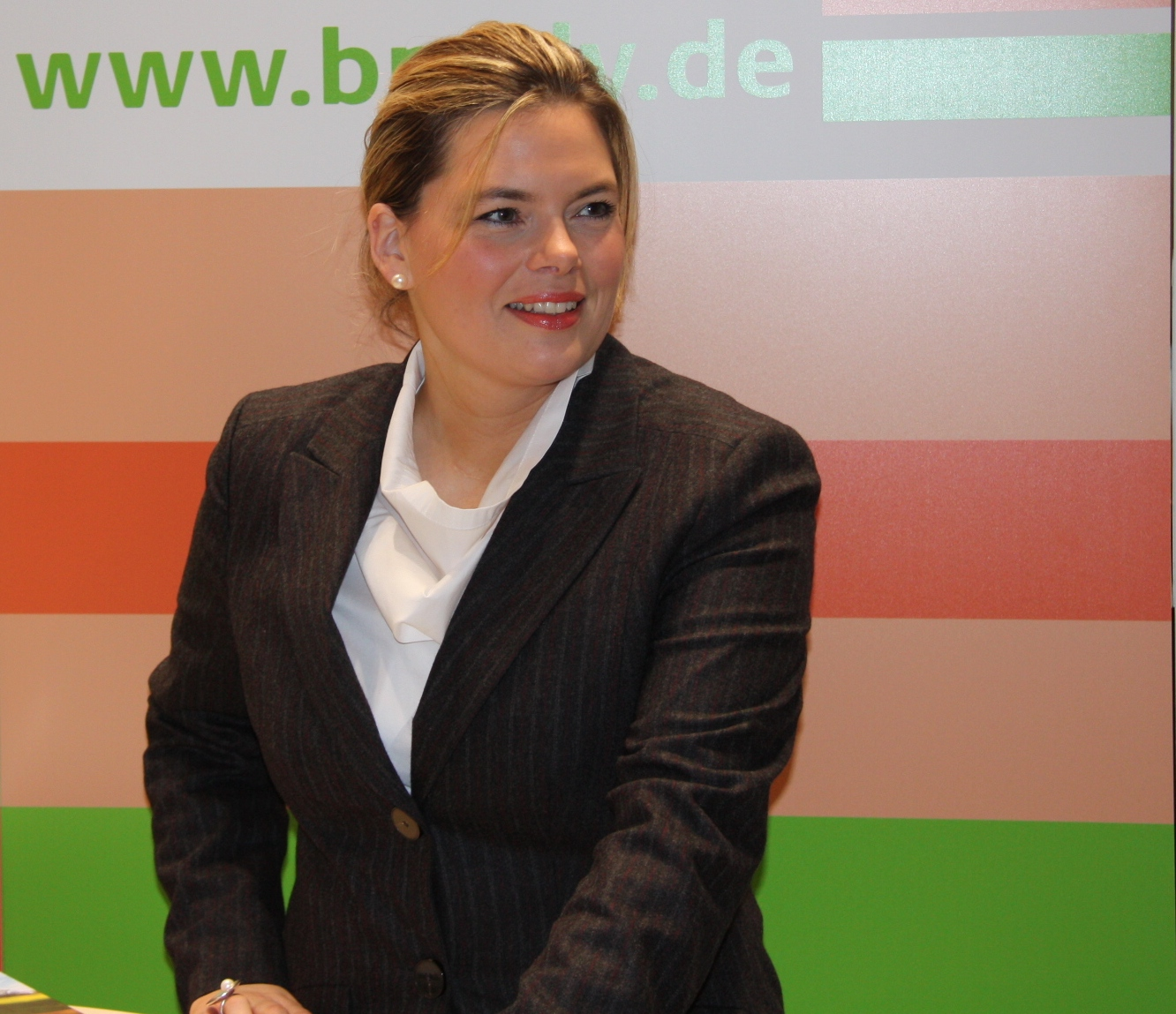 Julia Klöckner